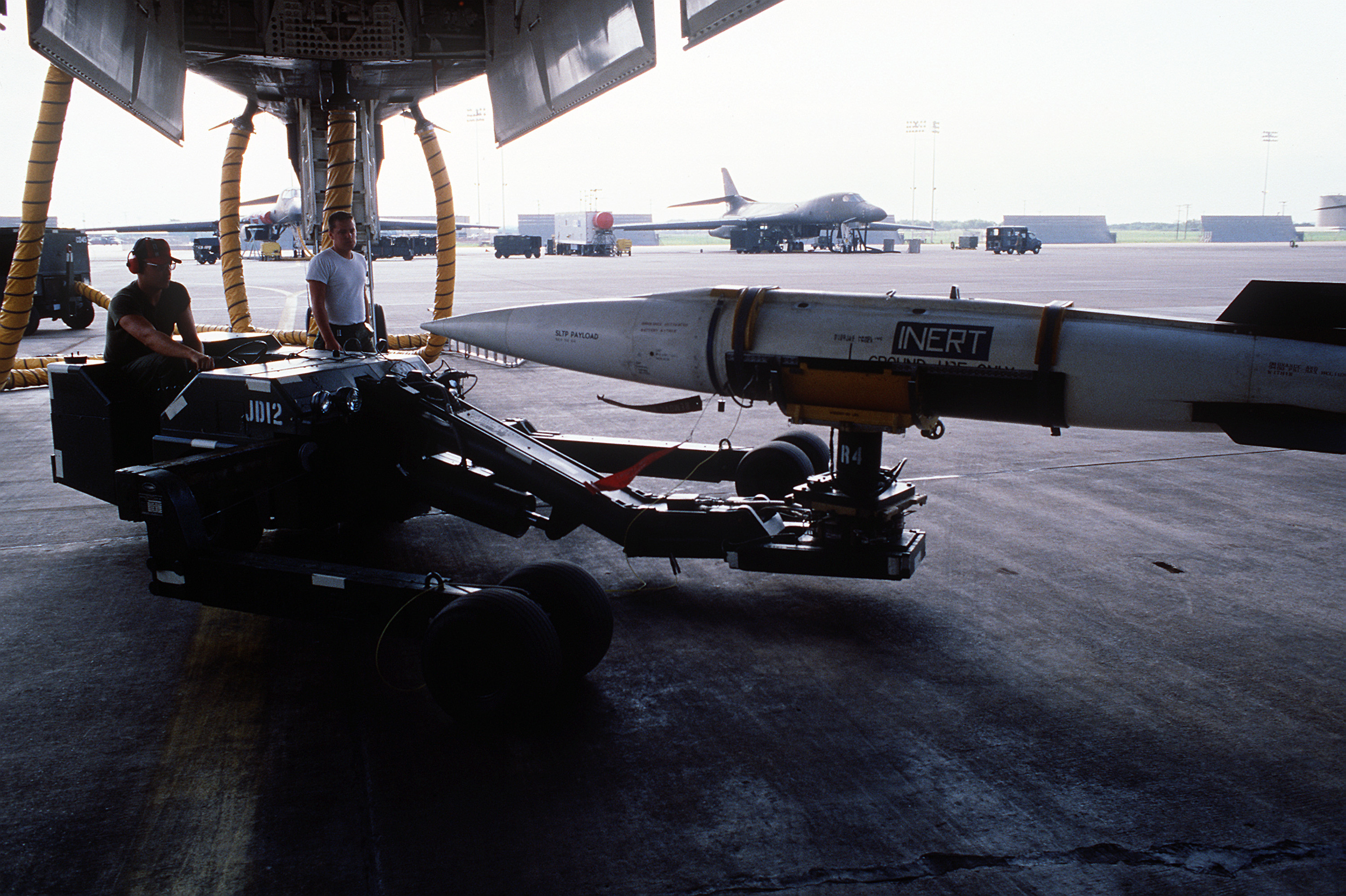 Members of the 96th Munitions Maintenance Squadron use a weapons loader to move an inert AGM-69A Short Range Attack Missile (SRAM) from underneath a B-1B bomber aircraft.